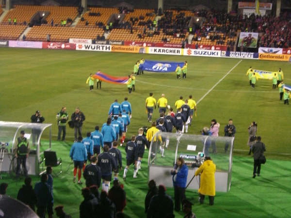 World Cup Qualify Match in Yerevan 28th of March 2009